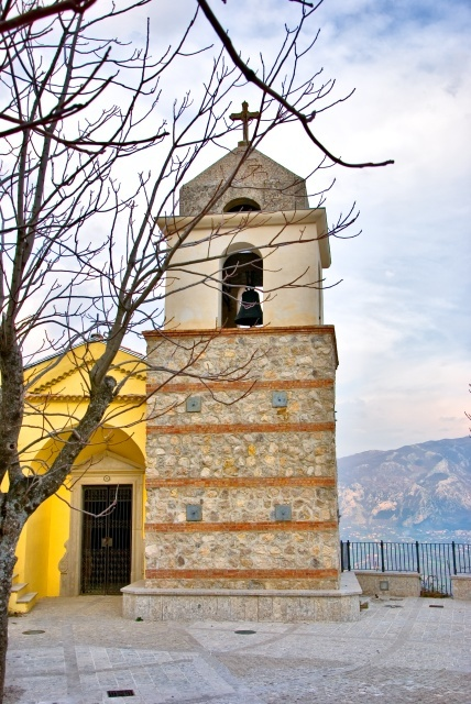 Church of San Michele di Senerchia